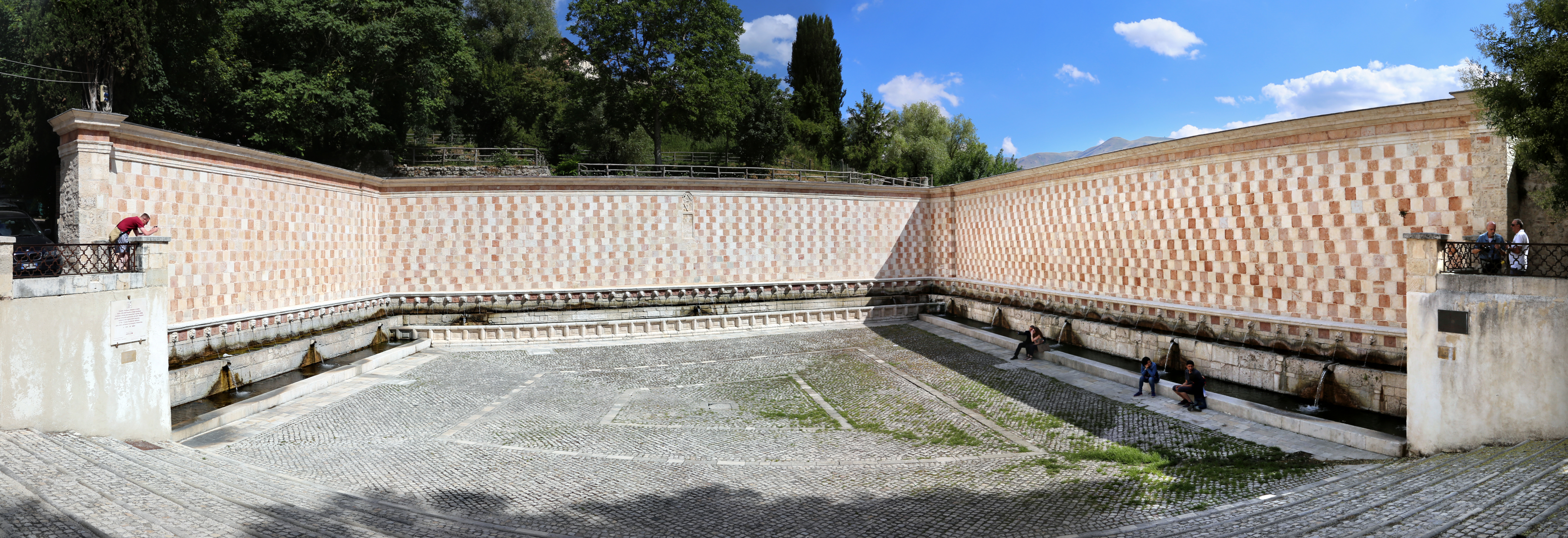 Fontana delle 99 cannelle (L'Aquila)